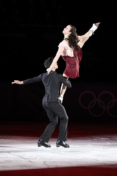 Gala exhibition at the 2018 Winter Olympics